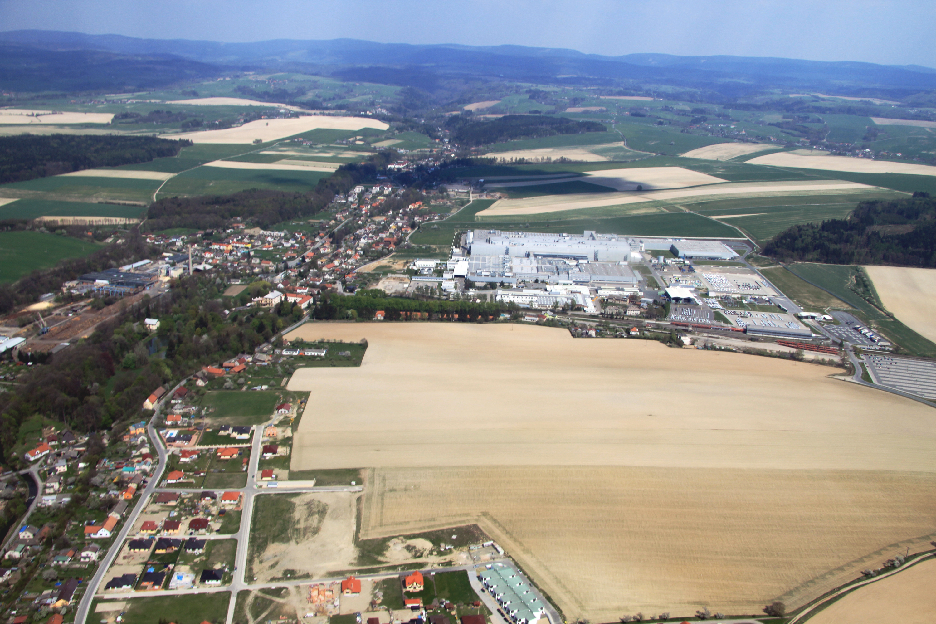 Village Kvasiny with Škoda car producing factory near of town Rychnov nad Kněžnou from air, eastern Bohemia, Czech Republic